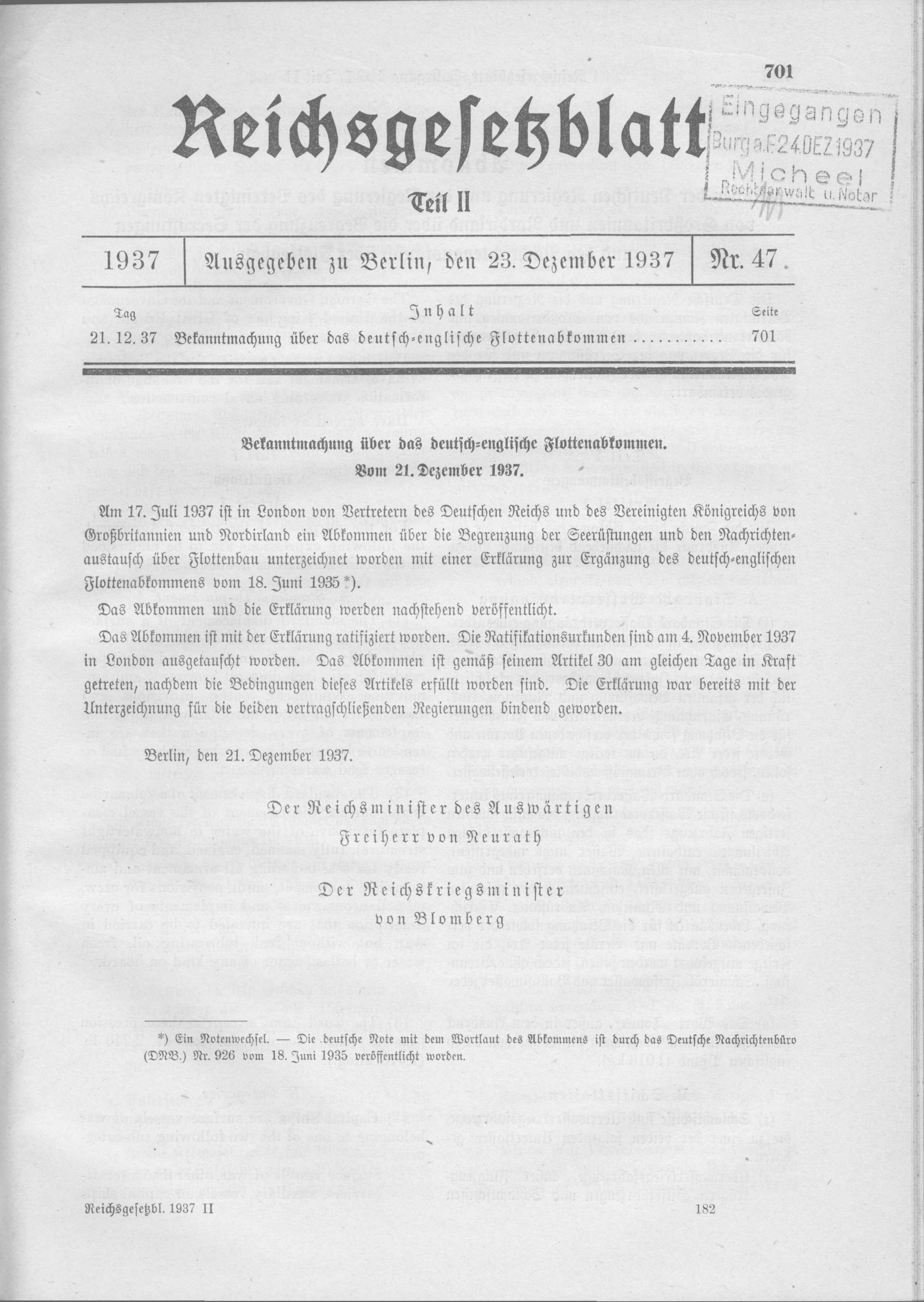 Scan from the Imperial Law Gazette of Germany, 1937, part 2